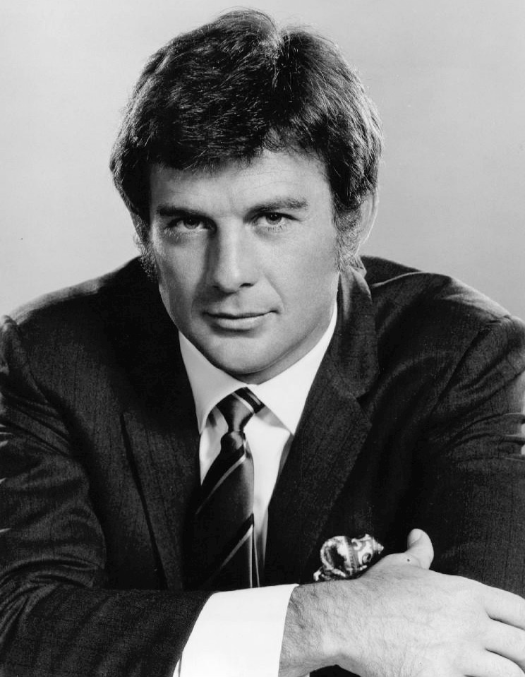 1968 photo of James Stacy who was starring in the CBS television program Lancer at the time.